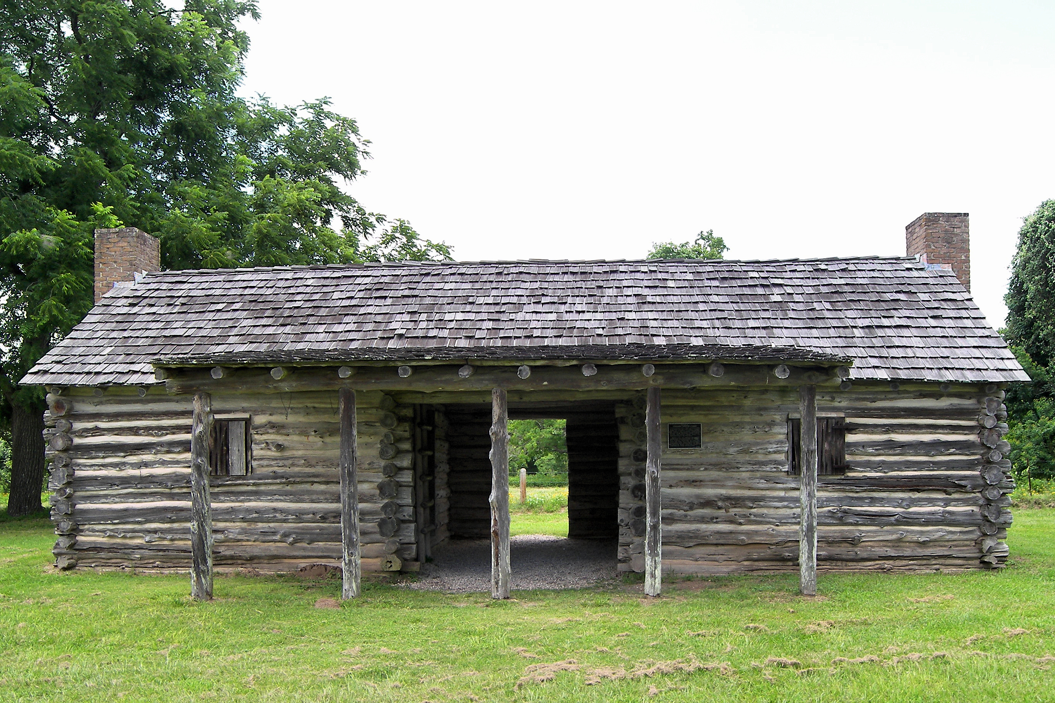 San Felipe de Austin State Historic Site replica log cabin, Austin County, Texas, United States